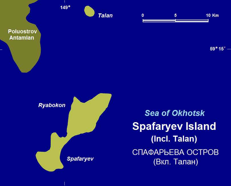 Island map